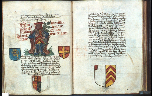 The founders' and benefactors' book of Tewkesbury Abbey in Gloucestershire, in Latin, from the first quarter of the 16th century. Courtesy of the Bodleian Library, University of Oxford. Showing the arms of Richard de Clare II, Earl of Hertford and Gloucester. Retouched by MarmadukePercy Shelfmark: MS. Top. Glouc. d2 Folios 18v-19r